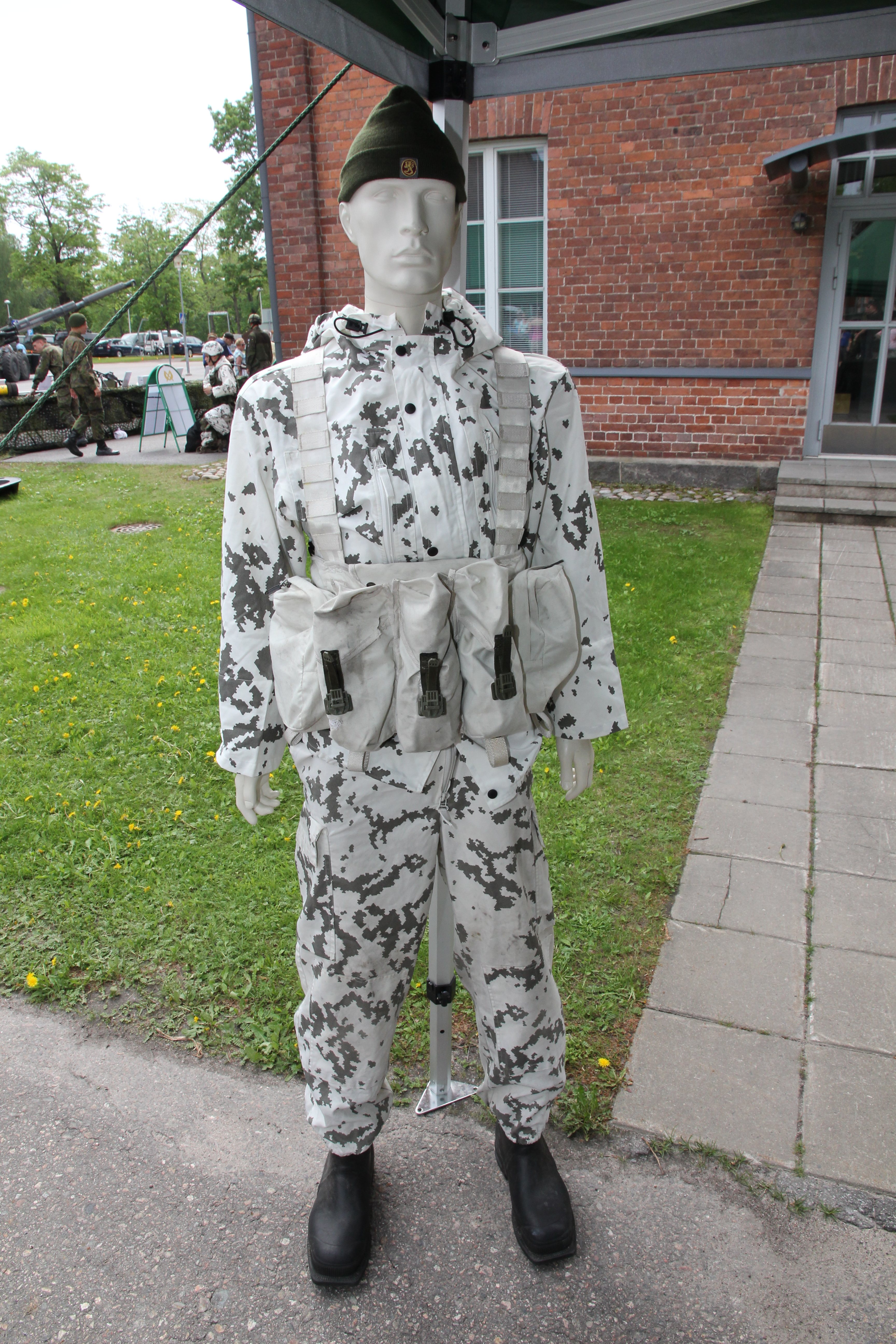 Mannequin in Finnish army winter camouflage on display during Finnish Defence Forces 2014 Flag day in Lappeenranta Rakuunanmäki.